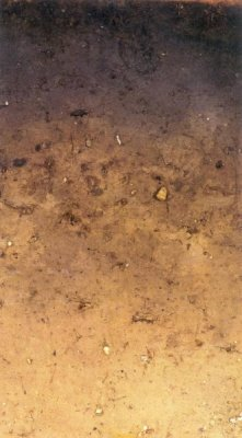 Moderpodzol